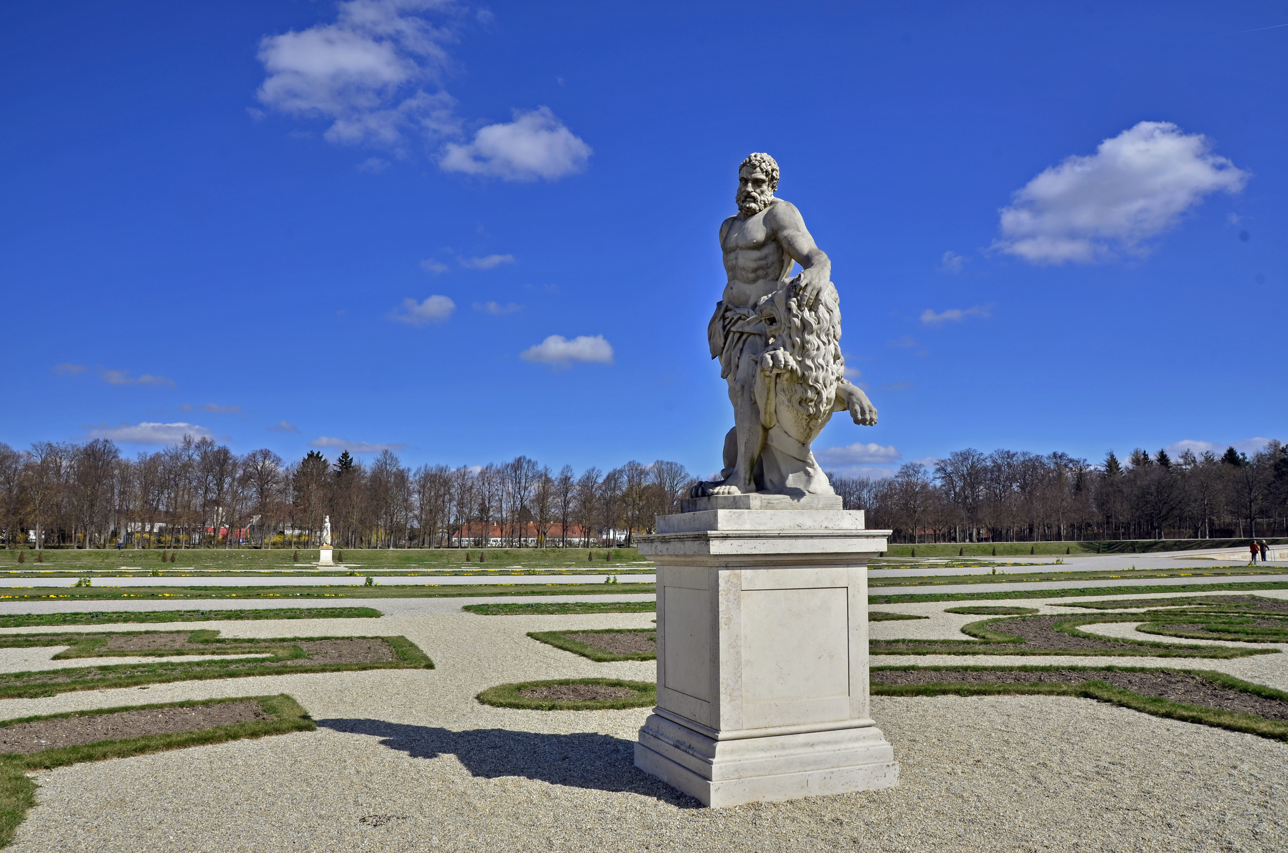 Schleissheim Castle - Hercules-Statue in the Parc